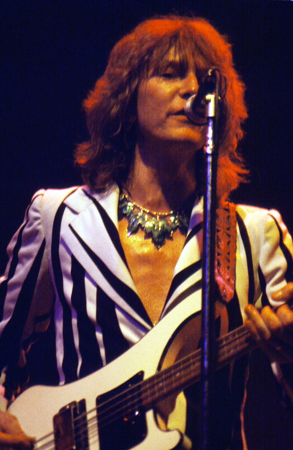 Chris Squire, Yes, Indianapolis, August 30, 1977, by Rick Dikeman